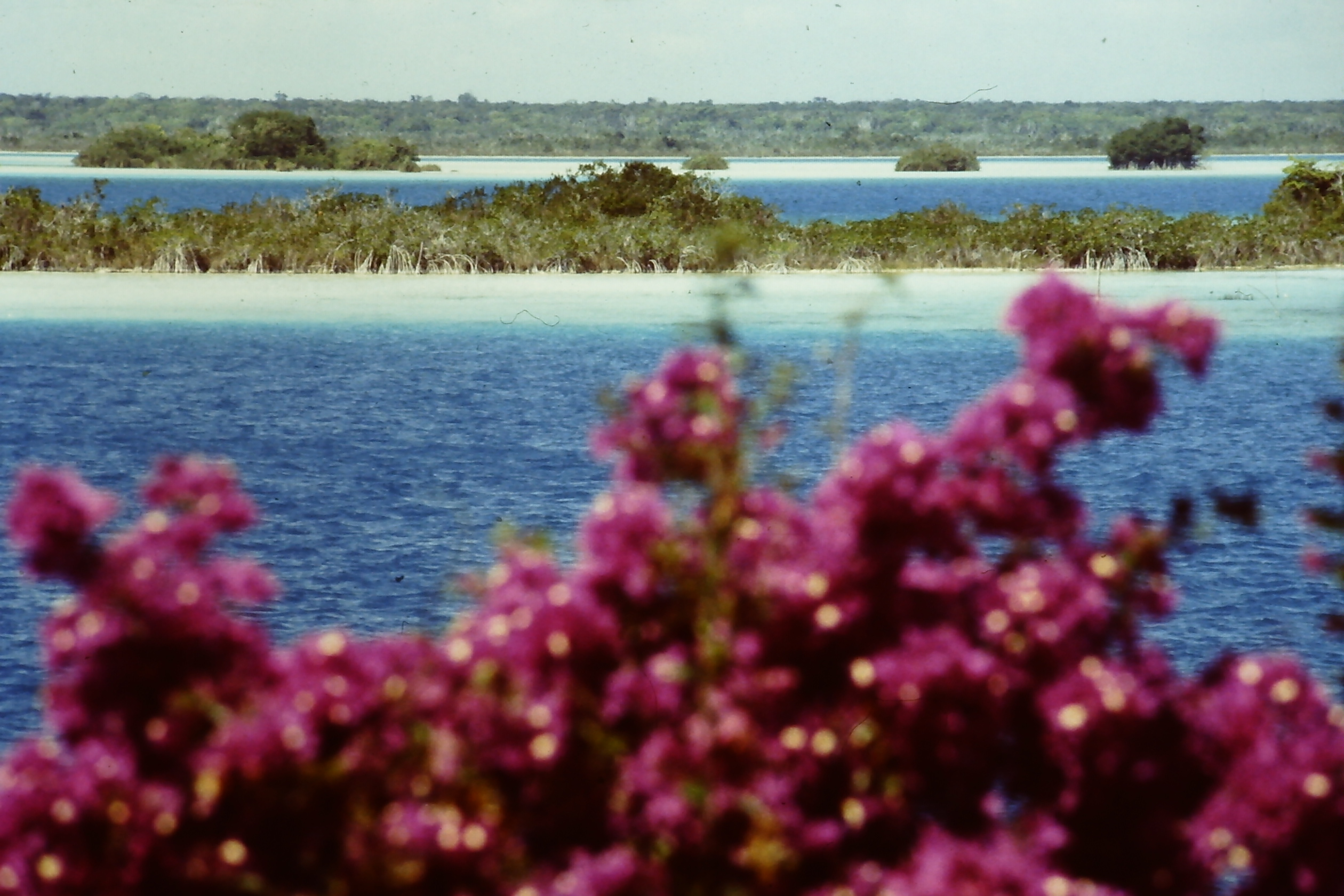 View over the Bacalar lagoon